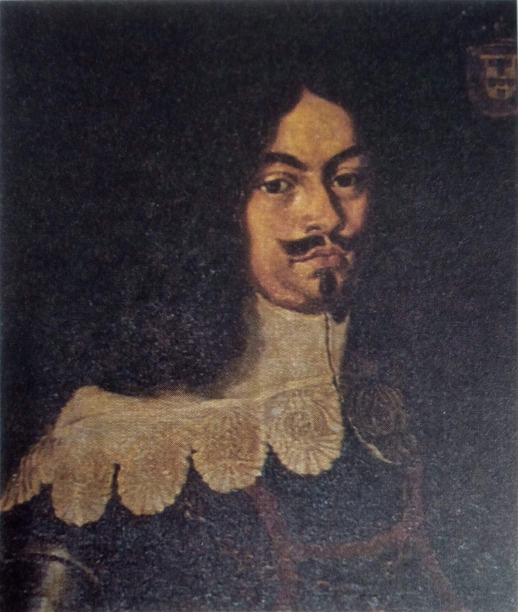 Duarte de Bragança, Senhor de Vila do Conde (1605-1649)